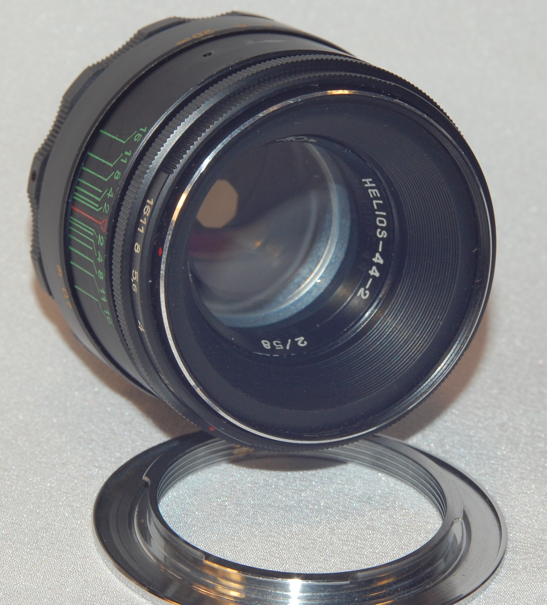 A Soviet-made Helios 44-2 58mm f2 Preset lens. The outer ring is used to set the minimum aperture (an aperture priority strategy). The second or middle ring opens and closes the aperture blades. The middle ring is used to open the blades to f2 for focusing and then spun (to the right) to stop down to the preset (target) aperture. The third ring is the focusing wheel. This is an M42 (42mm x 1mm) screw mount lens. In this image it is resting on a crude M42 to Nikon F adapter ring (operational although the absence of a rear glass element in the adapter makes infinity focusing on a modern DSRL impossible. This photo was taken by a Nikon D40 with an East German Pentacon 50mm f1.78 M42 lens mounted via a proper infinity focusing adapter.